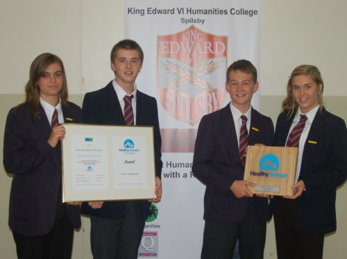 King Edward VI Humanities College pupils receiving an award